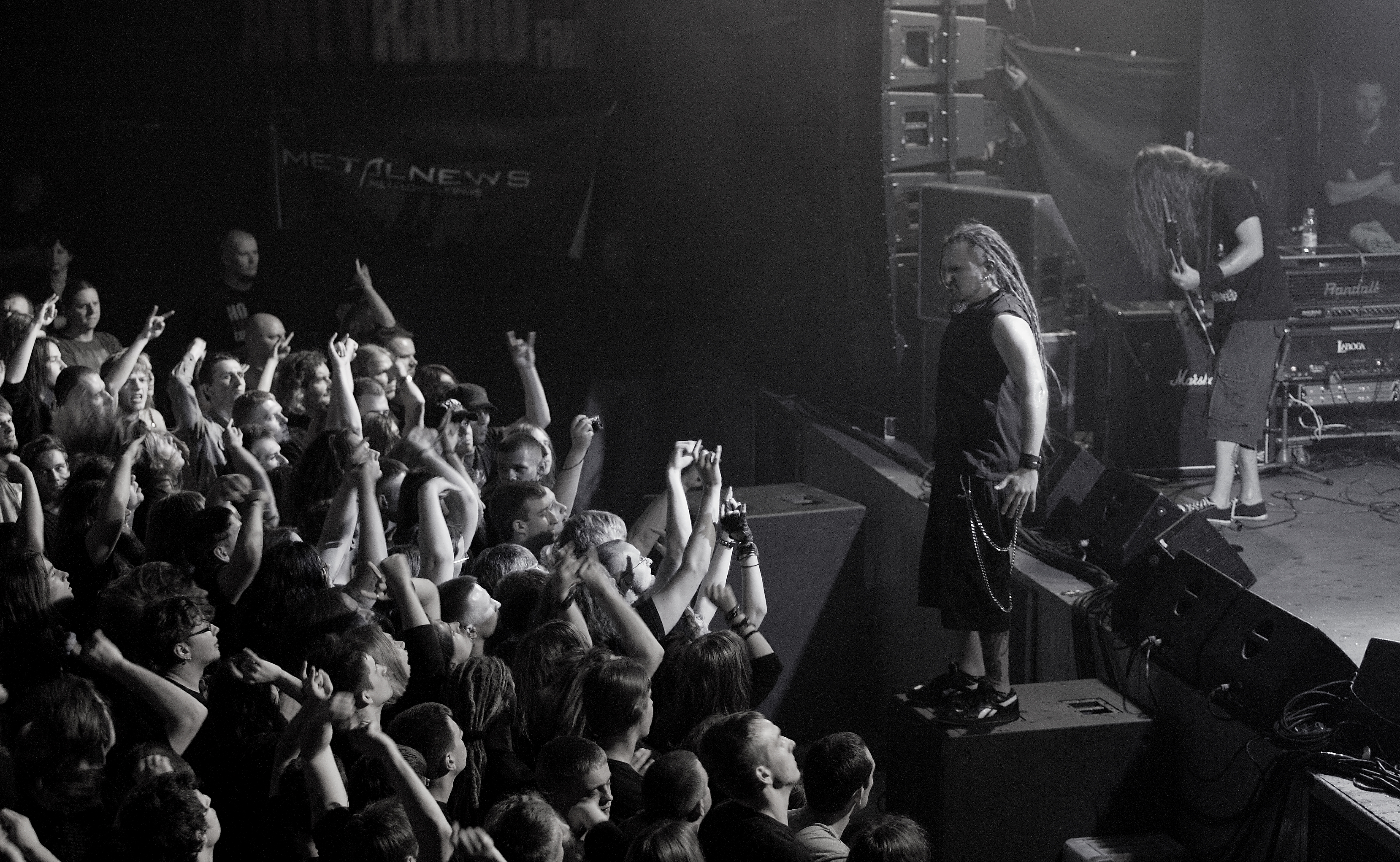 Decapitated live @ Klub Studio, Kraków, Poland, June 5th 2012